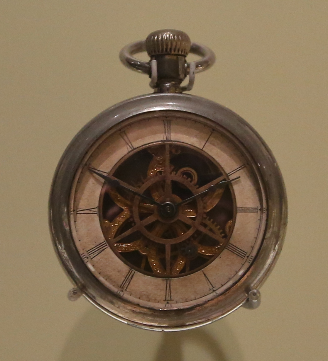 A Waterbury Dollar watch. The museum sign by it claims 1880s which seems about a decade too early.